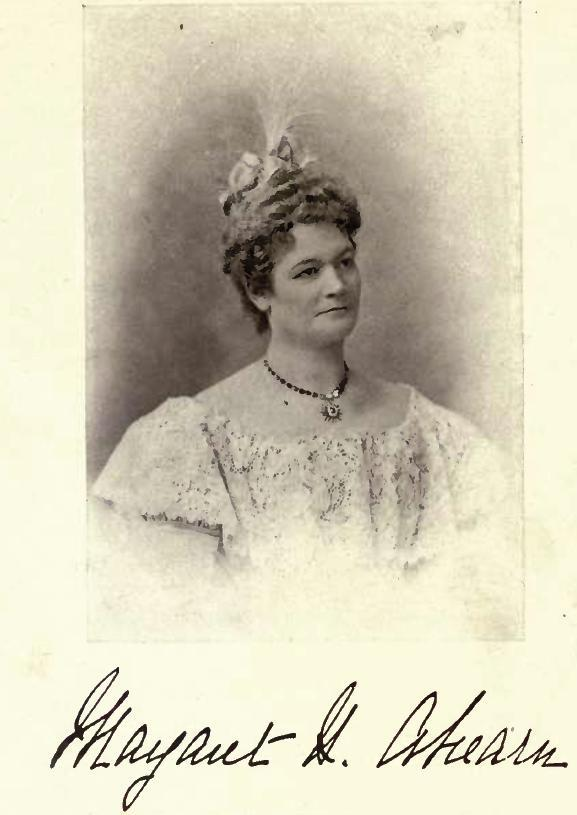 Madame Emma Brodeur by William James Topley